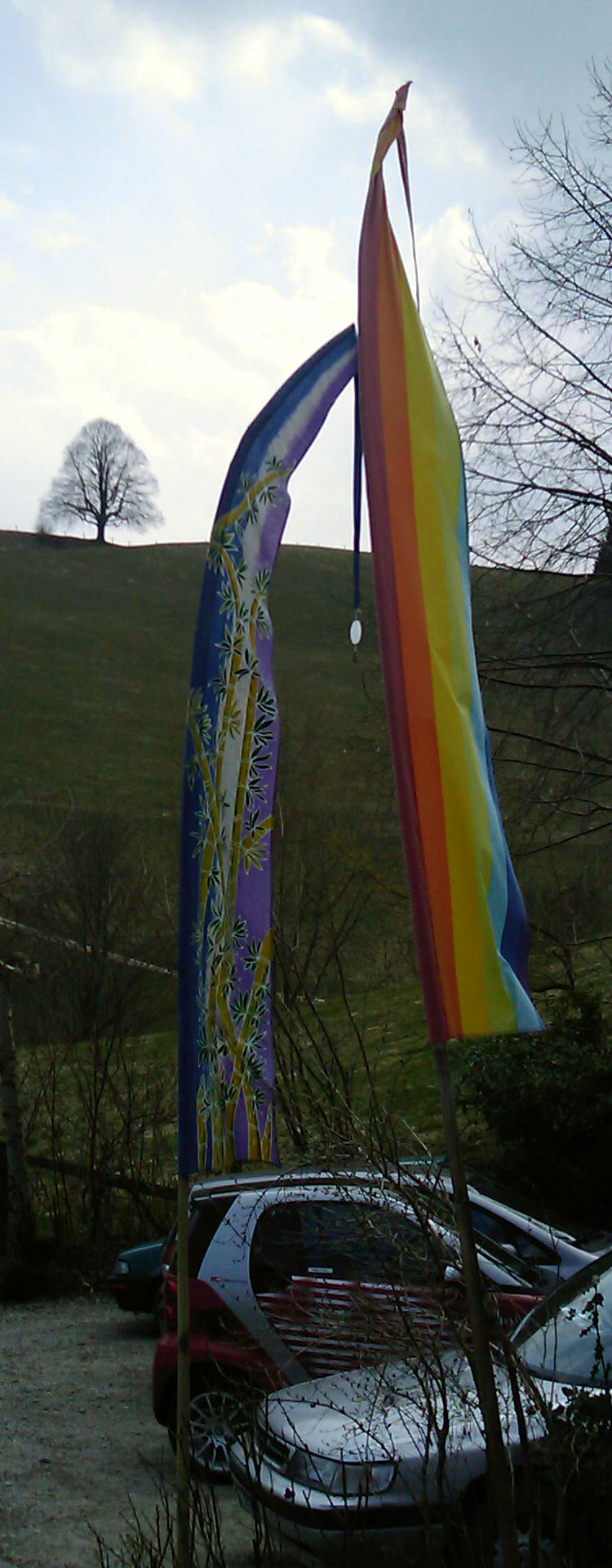 A pair of flags in the Indonesian umbul-umbul design, used for decorative purposes in Switzerland.